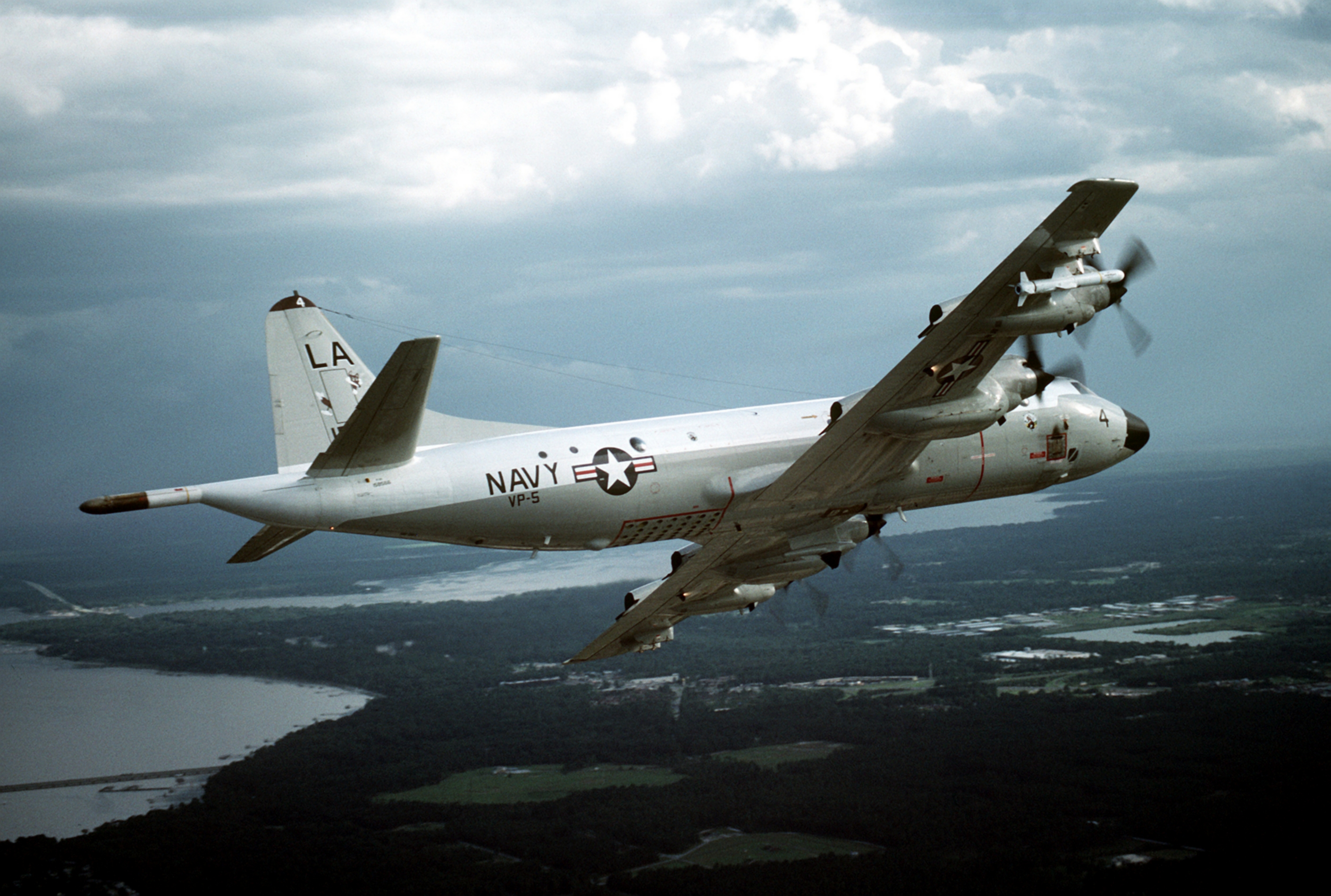 A U.S. Navy Lockheed P-3C-140-LO Orion (BuNo 158566) of Patrol Squadron VP-5 "Mad Foxes" in flight. Note the AGM-84 missile under the wing.